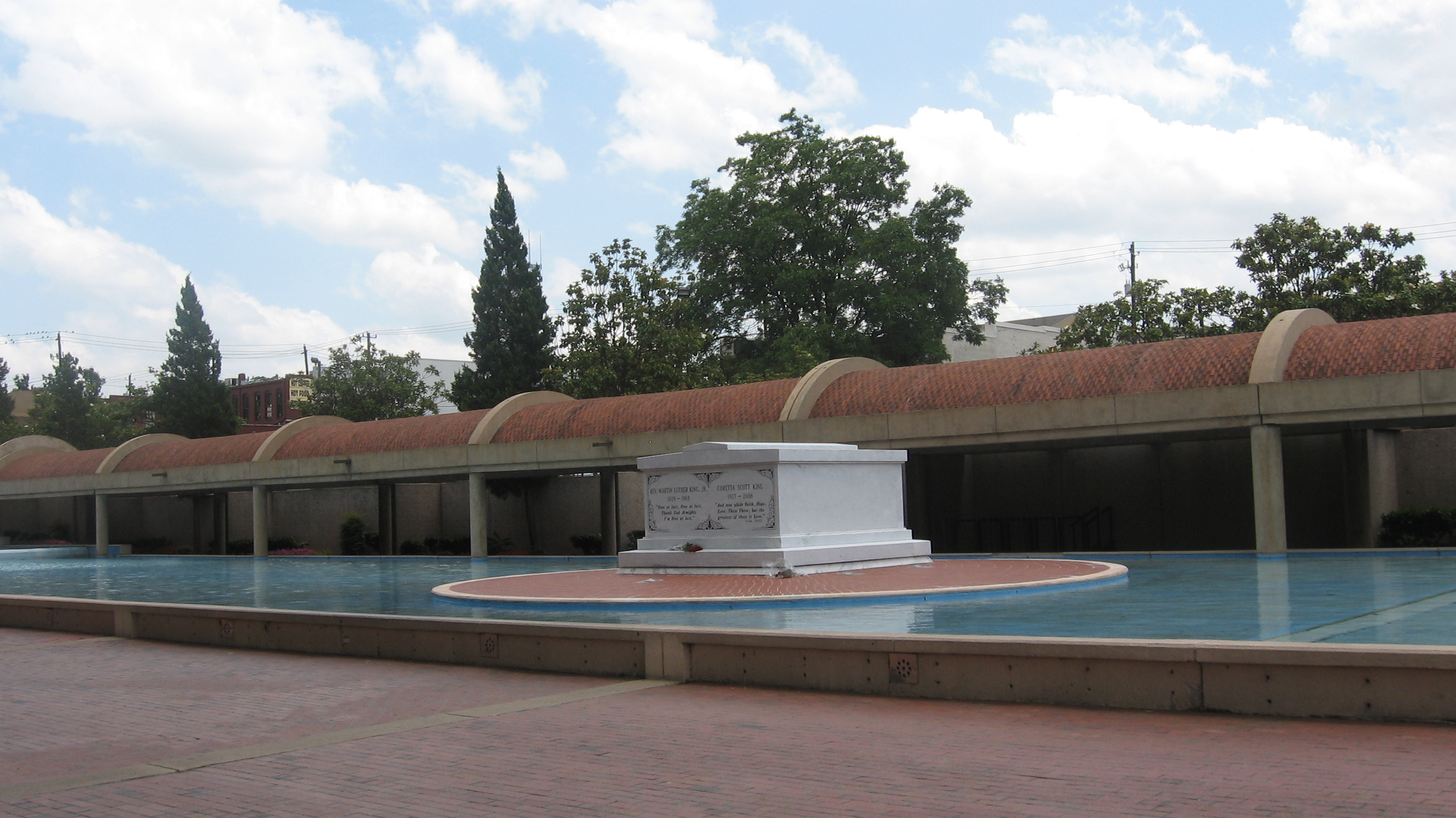 Tomb of Martin Luther King Jr. and Coretta Scott King